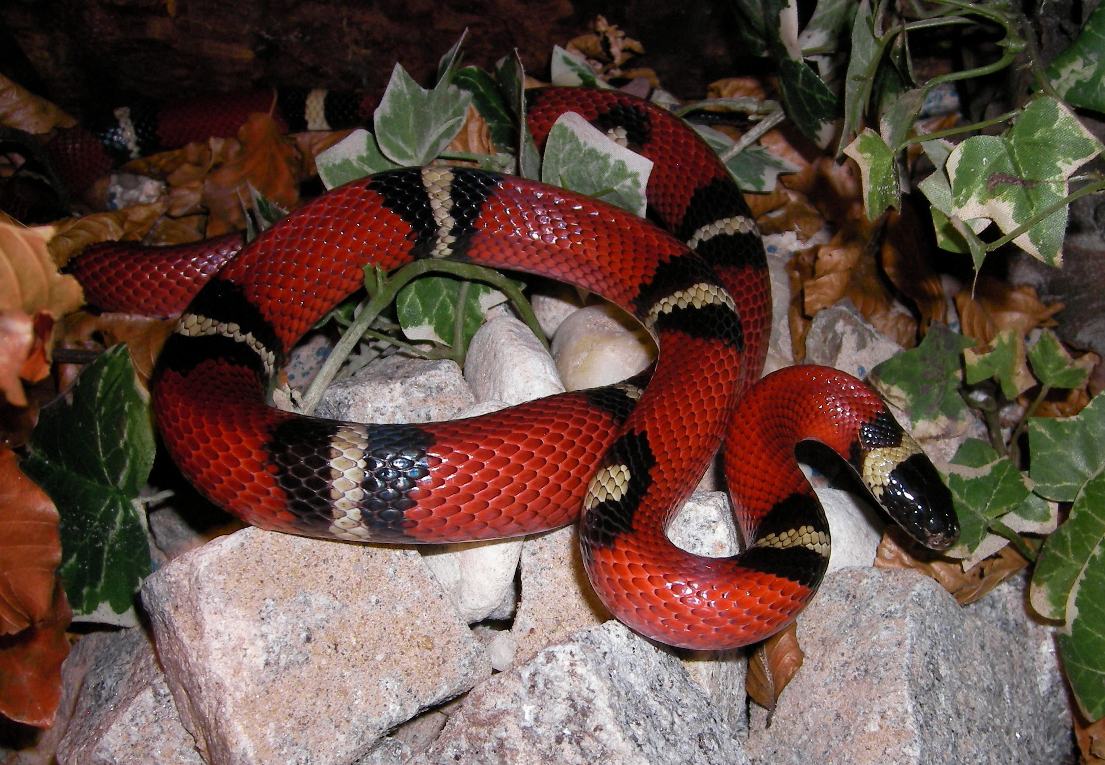 Sinaloan milk snake (Lampropeltis triangulum sinaloae)